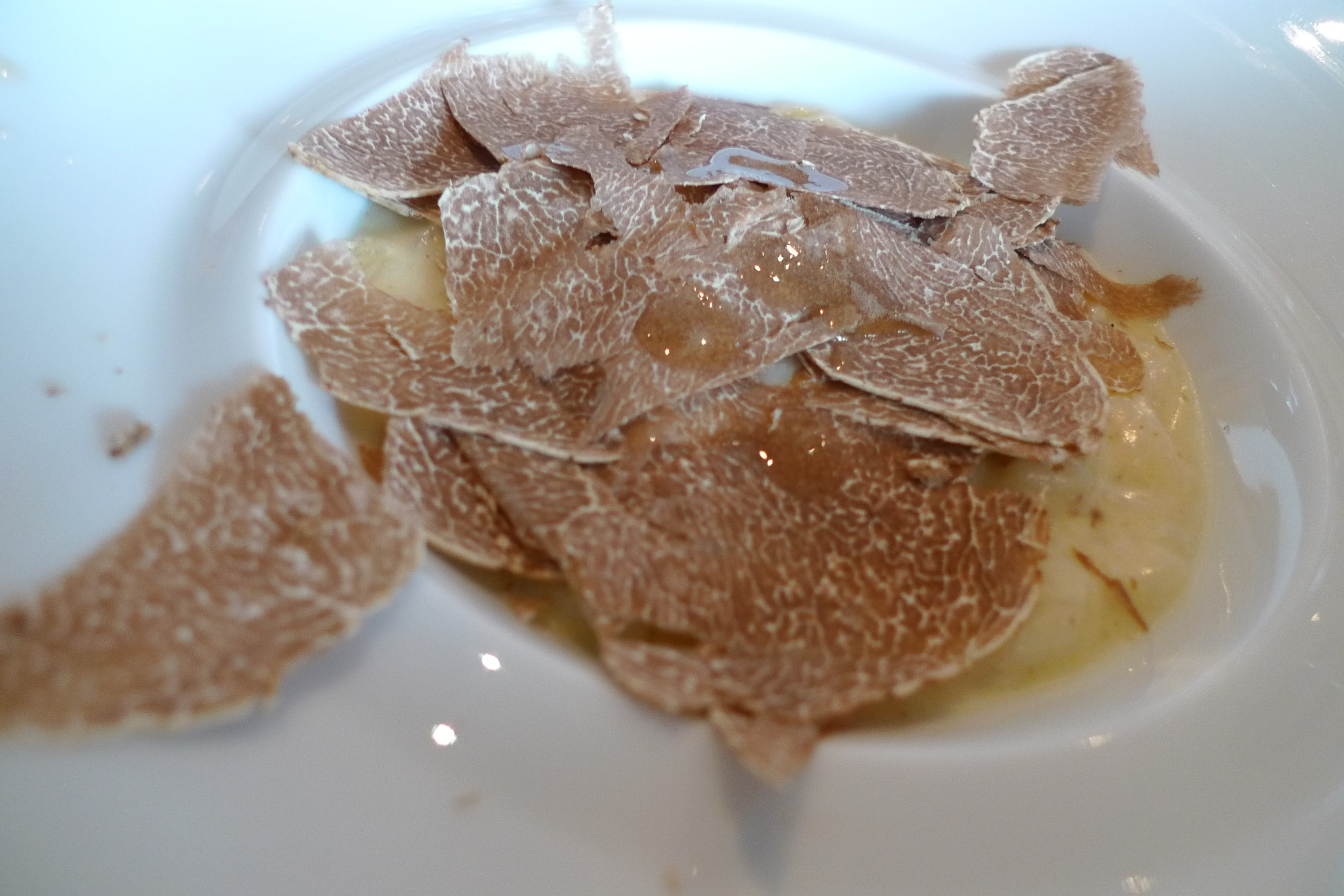 Risotto with White Truffles from Alba - Italy, finished with brown butter. At The French Laundry, Yountville, California. Photo by Simone